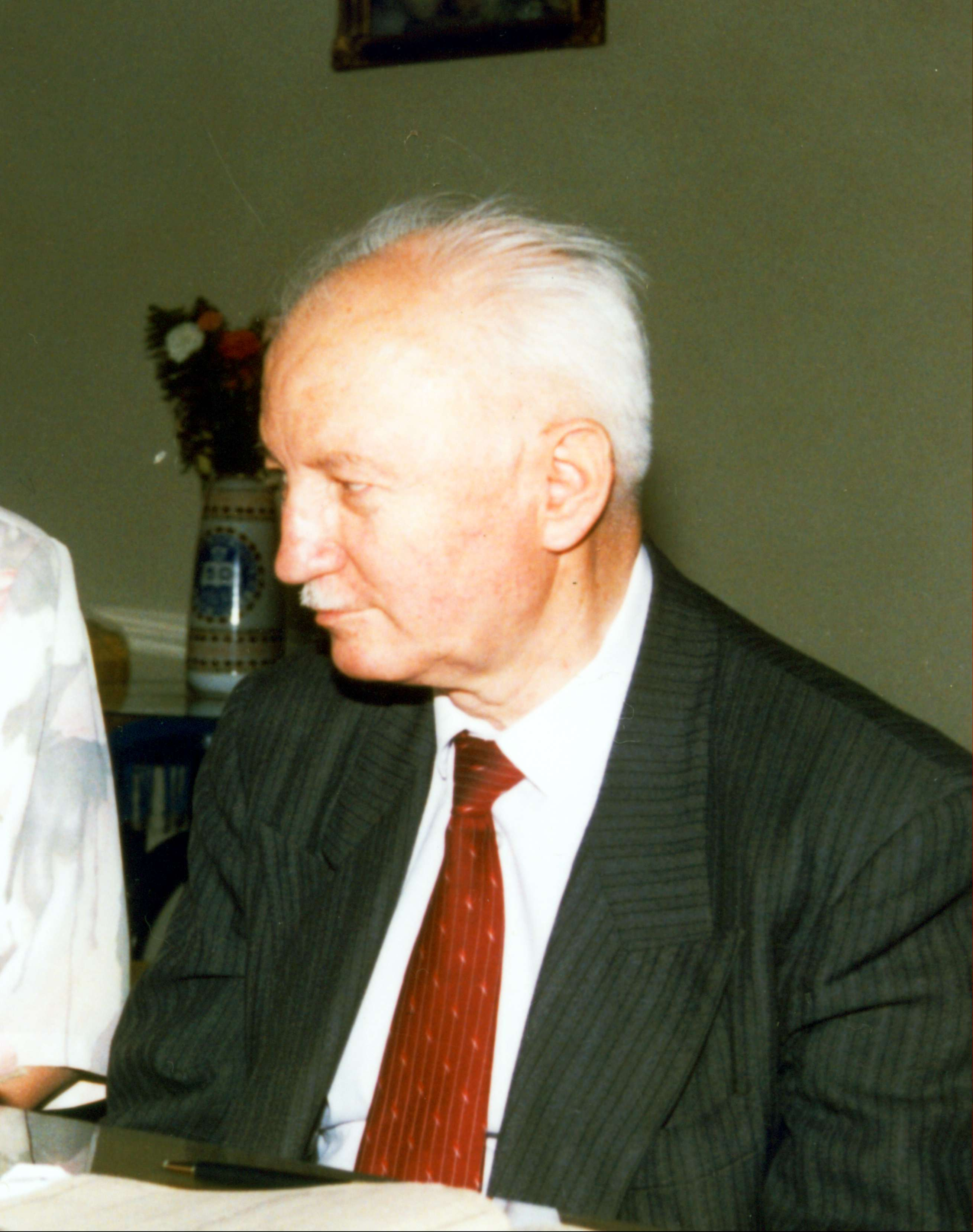 Professor Mircea Mureşan (jurist)